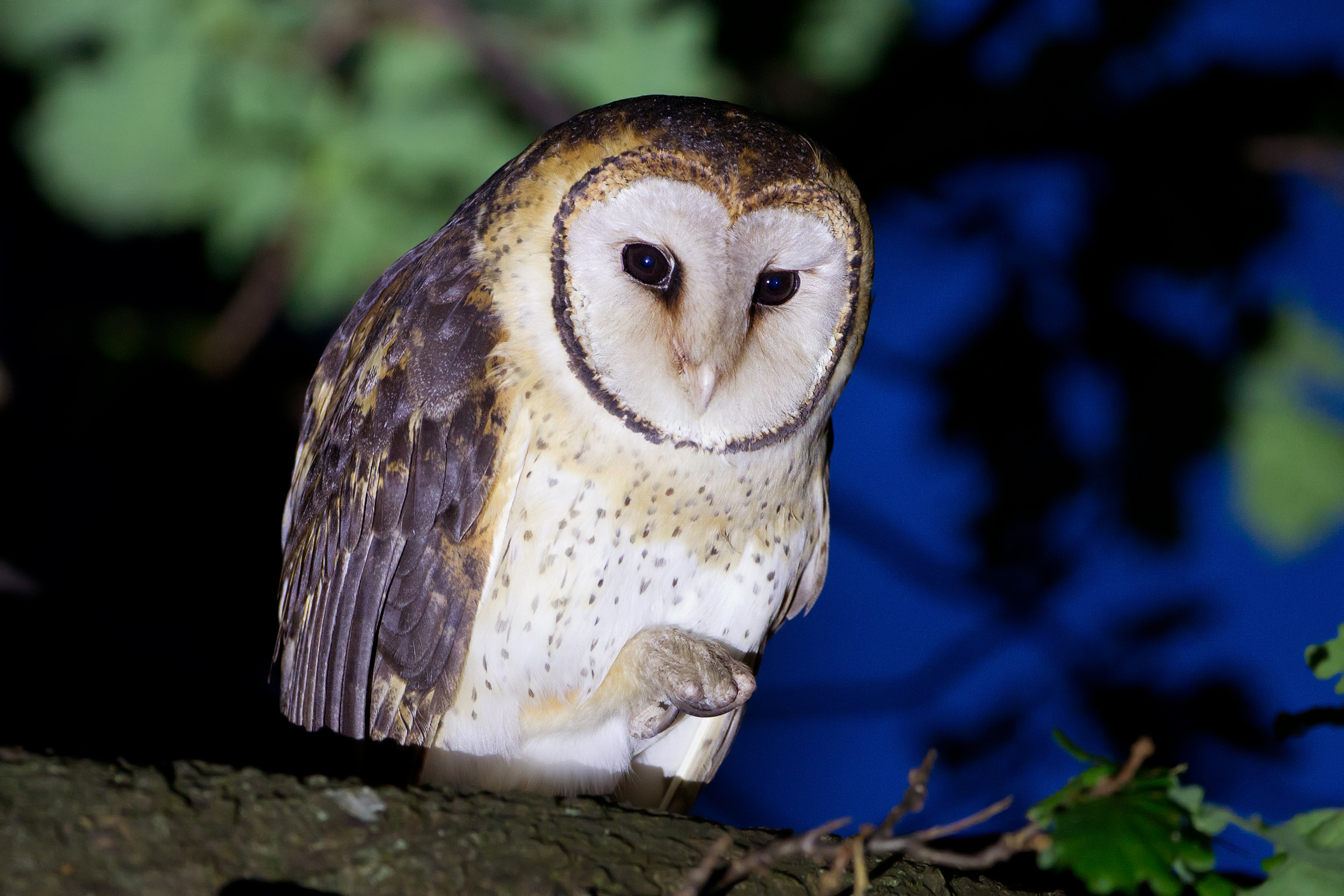 Tasmanian Masked Owl (Tyto novaehollandiae castanops), Port Arthur, Tasmania, Australia